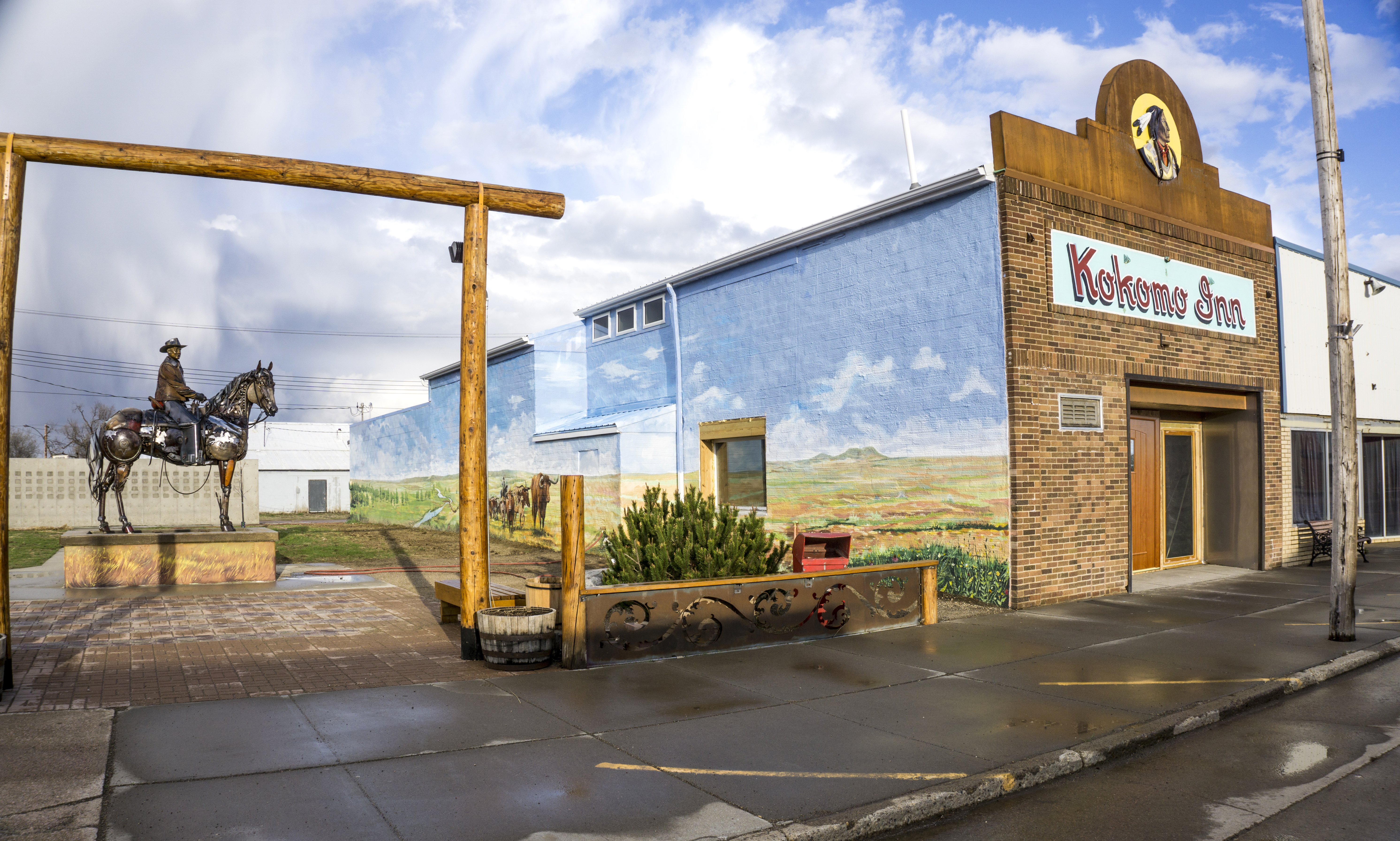 A monument of Ed Lemmon resides in Boss Cowman Square next to the Kokomo, an art gallery housing the work of sculptor John Lopez